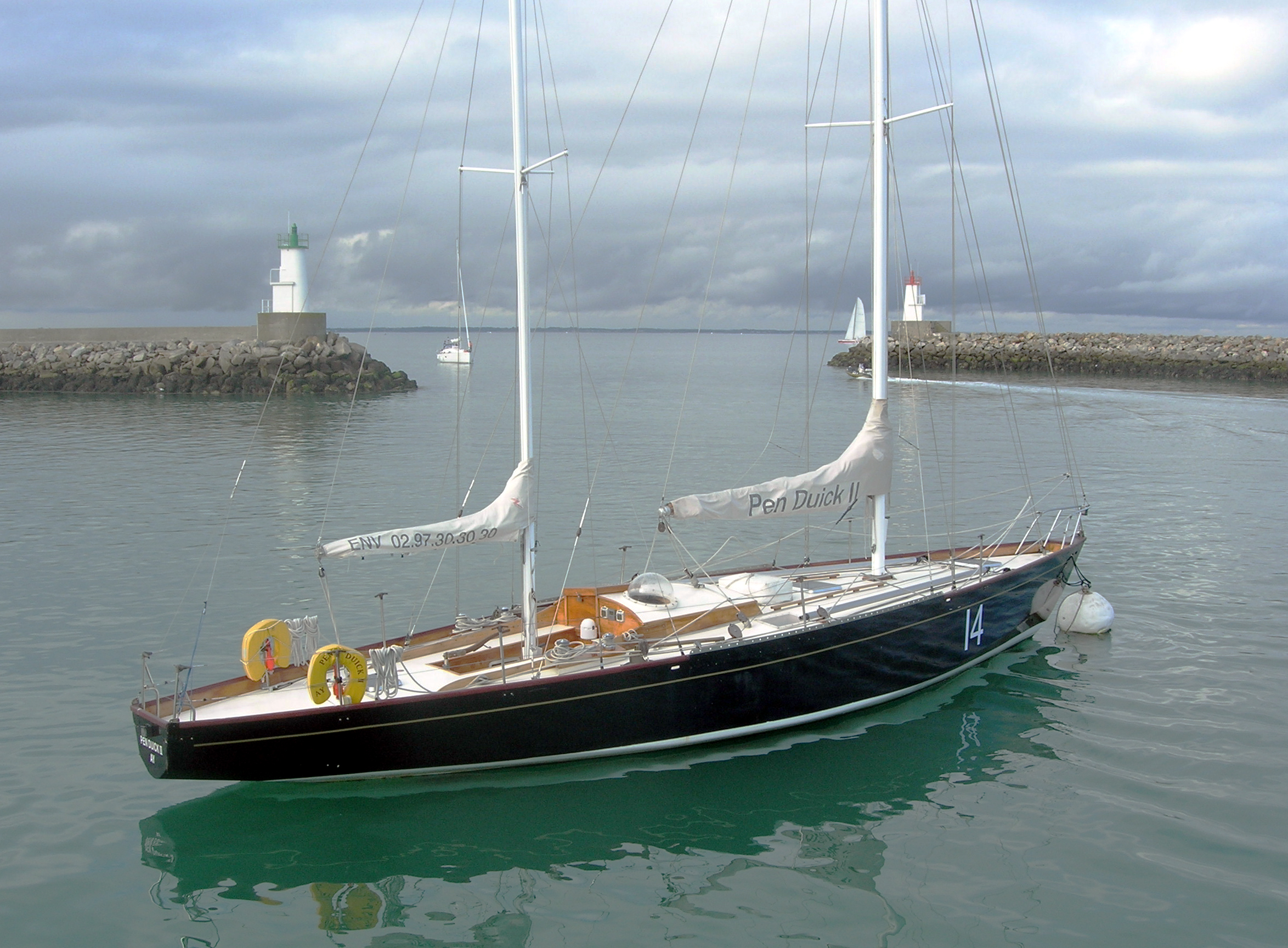 Description =Pen Duick II d'Eric Tabarly a Port Haliguen Source =Photo taken by Remi Jouan Date =Aout 2006 Author =Remi Jouan